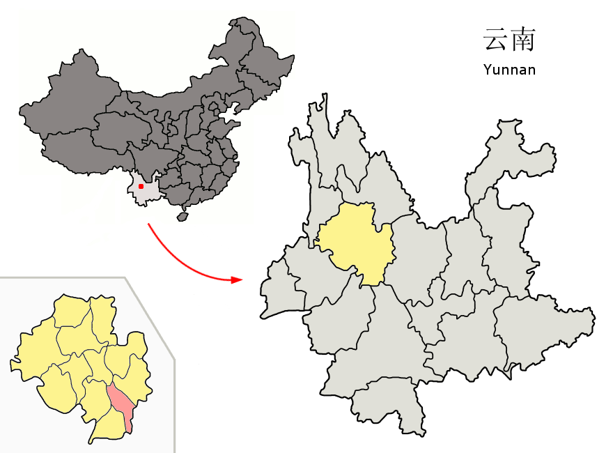 Location of Midu County (pink) and Dali Prefecture (yellow) within Yunnan province of China Map drawn in september 2007 using various sources, mainly : Yunnan province administrative regions GIS data: 1:1M, County level, 1990 Yunnan Counties map from